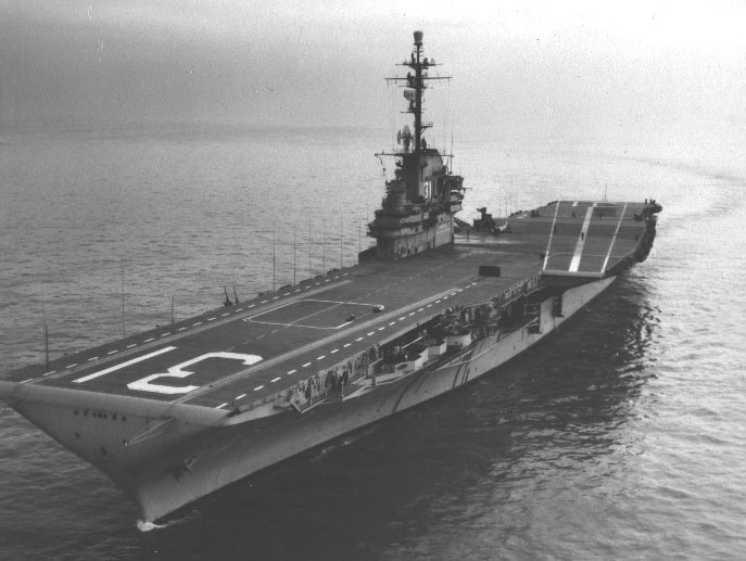 The U.S. aircraft carrier USS Bon Homme Richard (CVA-31) underway on sea trials after the SCB-27C/SCB-125 conversion at Hunters Point Naval Shipyard in San Francisco, California (USA), 15 September 1955.